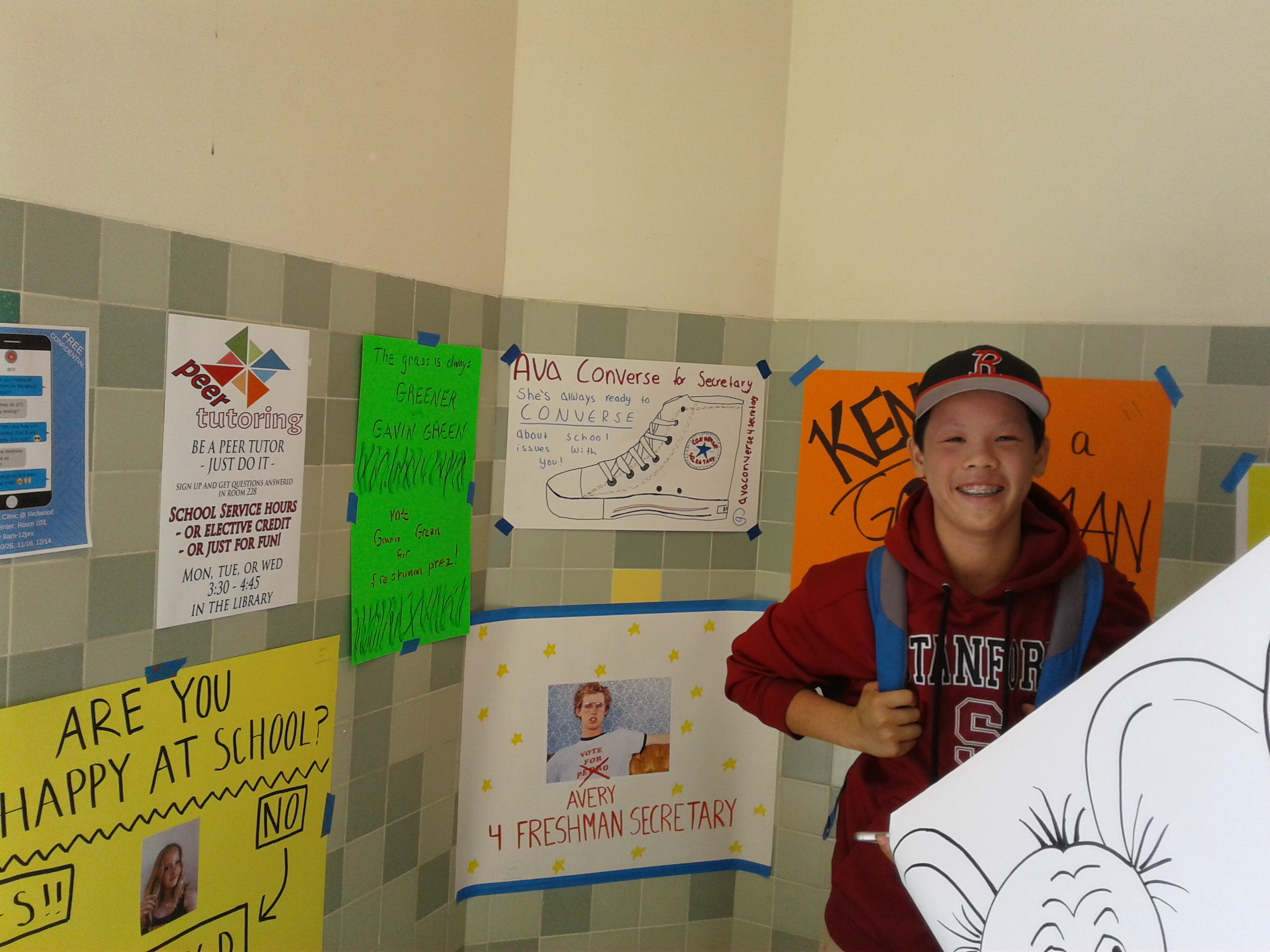 a guy photobombed it